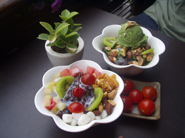 Patbingsu and nokcha bingsu (green tea bingsu) being served along with cherry tomatoes.